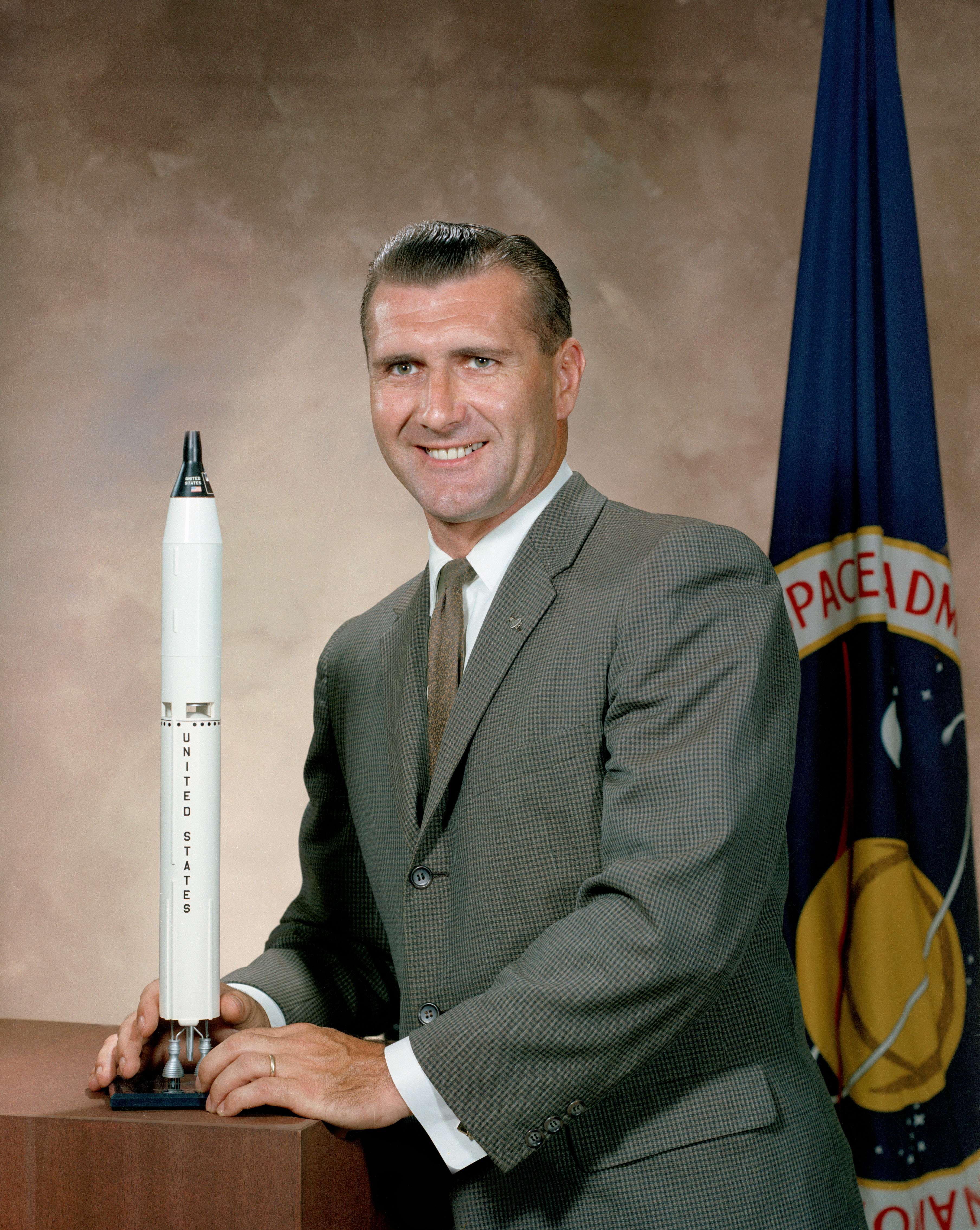 Portrait of astronaut Richard F. Gordon in civilian clothes